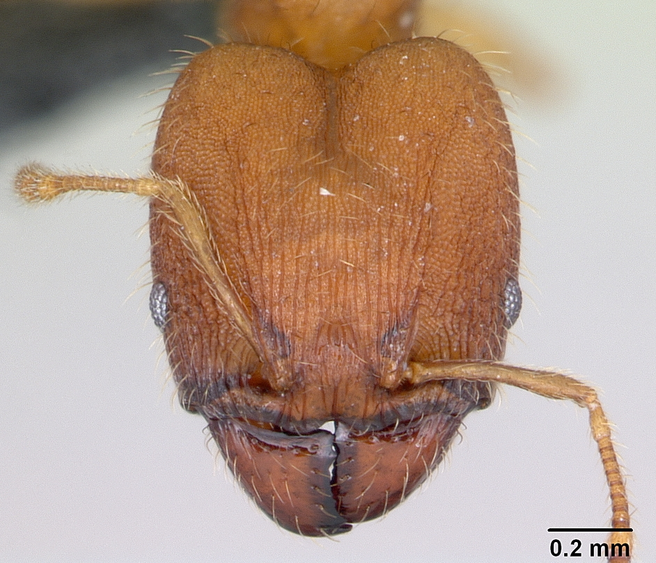 Head view of ant Pheidole bilimeki specimen casent0173659.